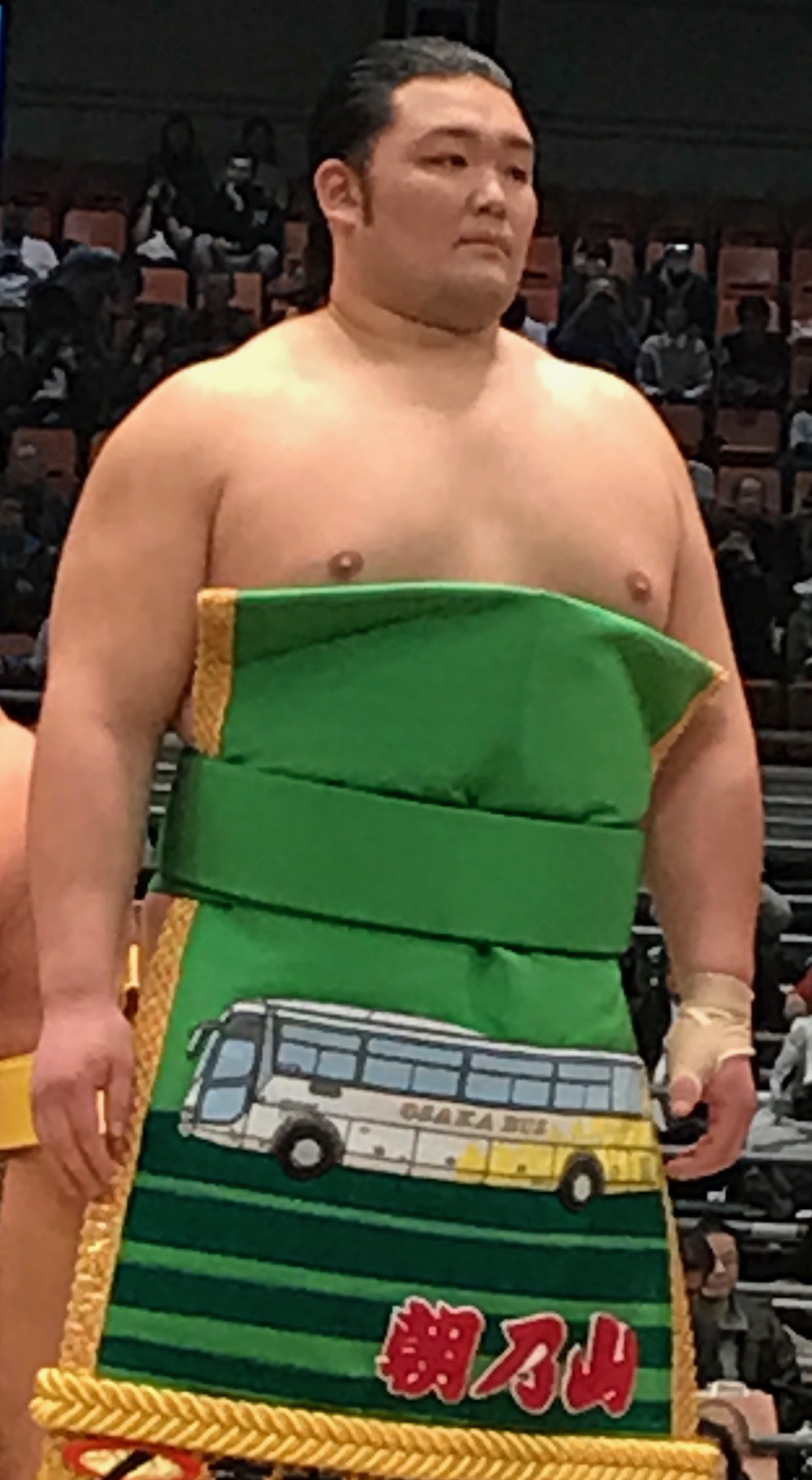 taken at March 2017 ring entering ceremony